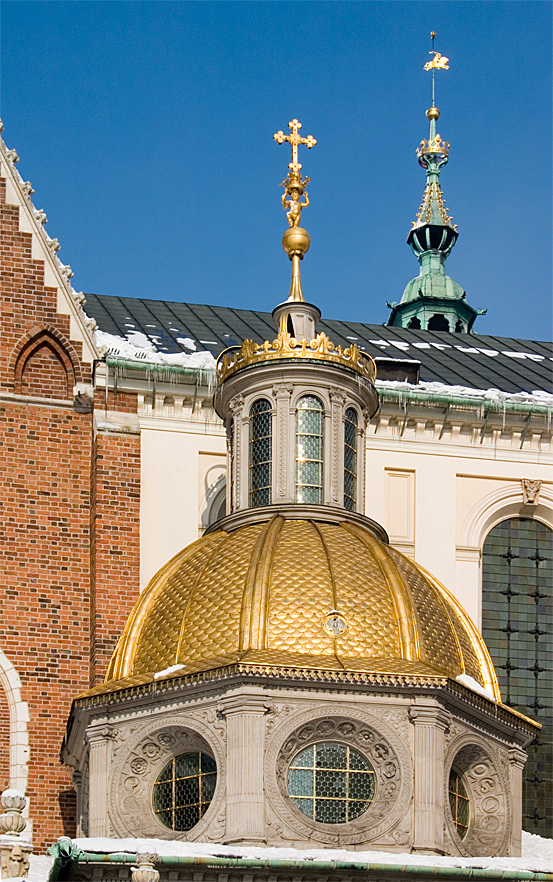 One of the chapels of Wawel Cathedral in Kraków, Poland. Picture taken in February 2005 by Adam Kumiszcza.